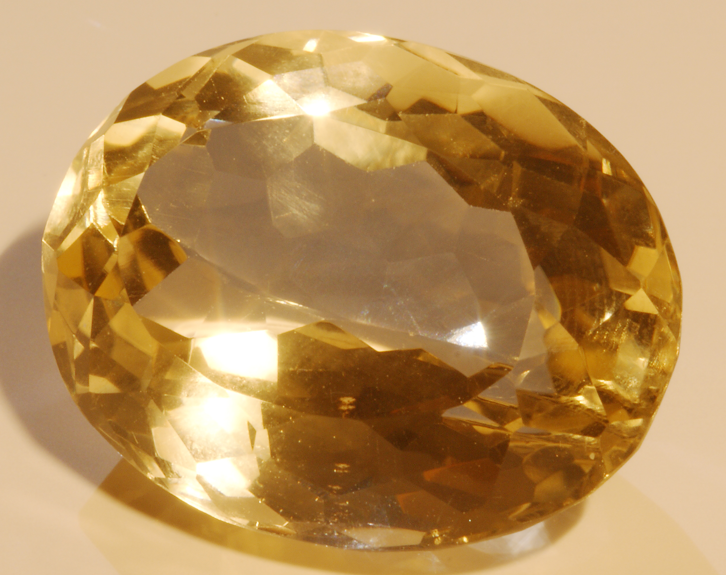 Quartz Citrine - Minas Gerais - Brasil (3x2.2cm)